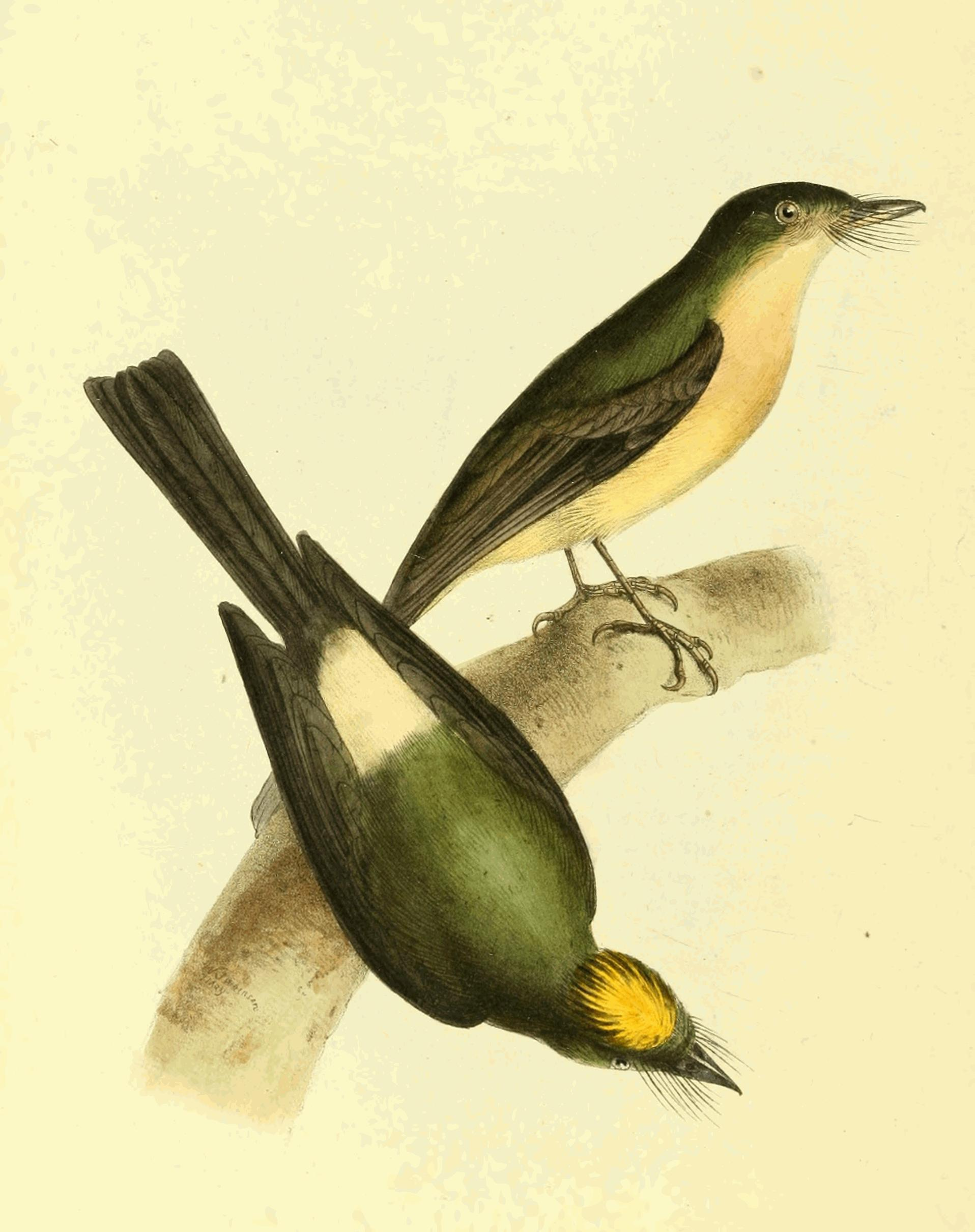 Plate 116. Muscipeta barbata. Whiskered Flycatcher. Modern accepted name (2012) is Myiobius barbatus[1].